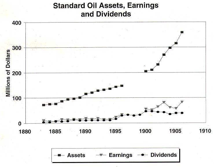 my spreadsheet from Standard Oil data